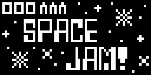 Space Jam! game start screen Pixie graphics example snapshot via Octo Chip-8 emulator in 64x32 resolution.